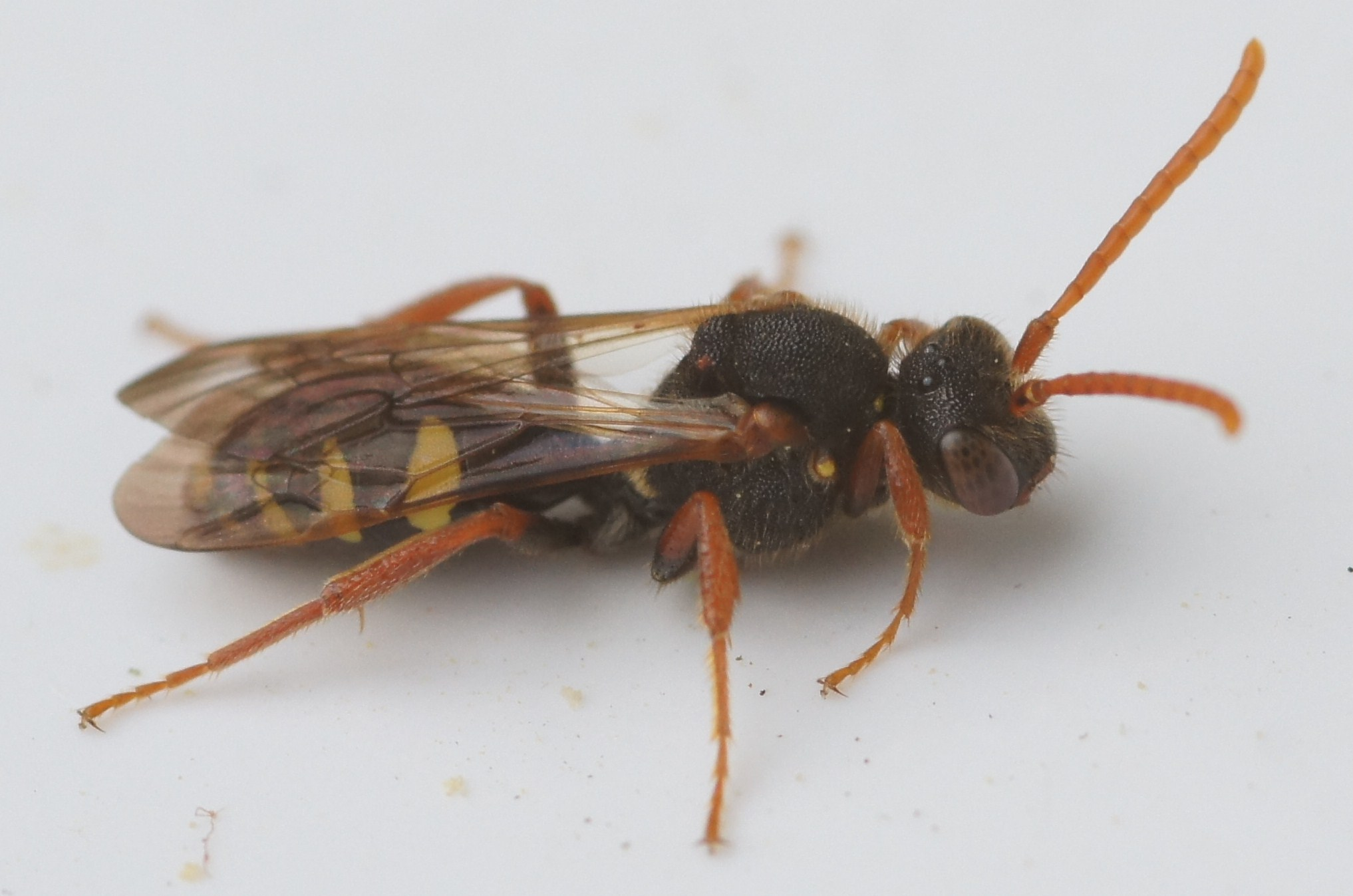 Nomada marshamella (female). Picture taken in Skåne, Sweden.